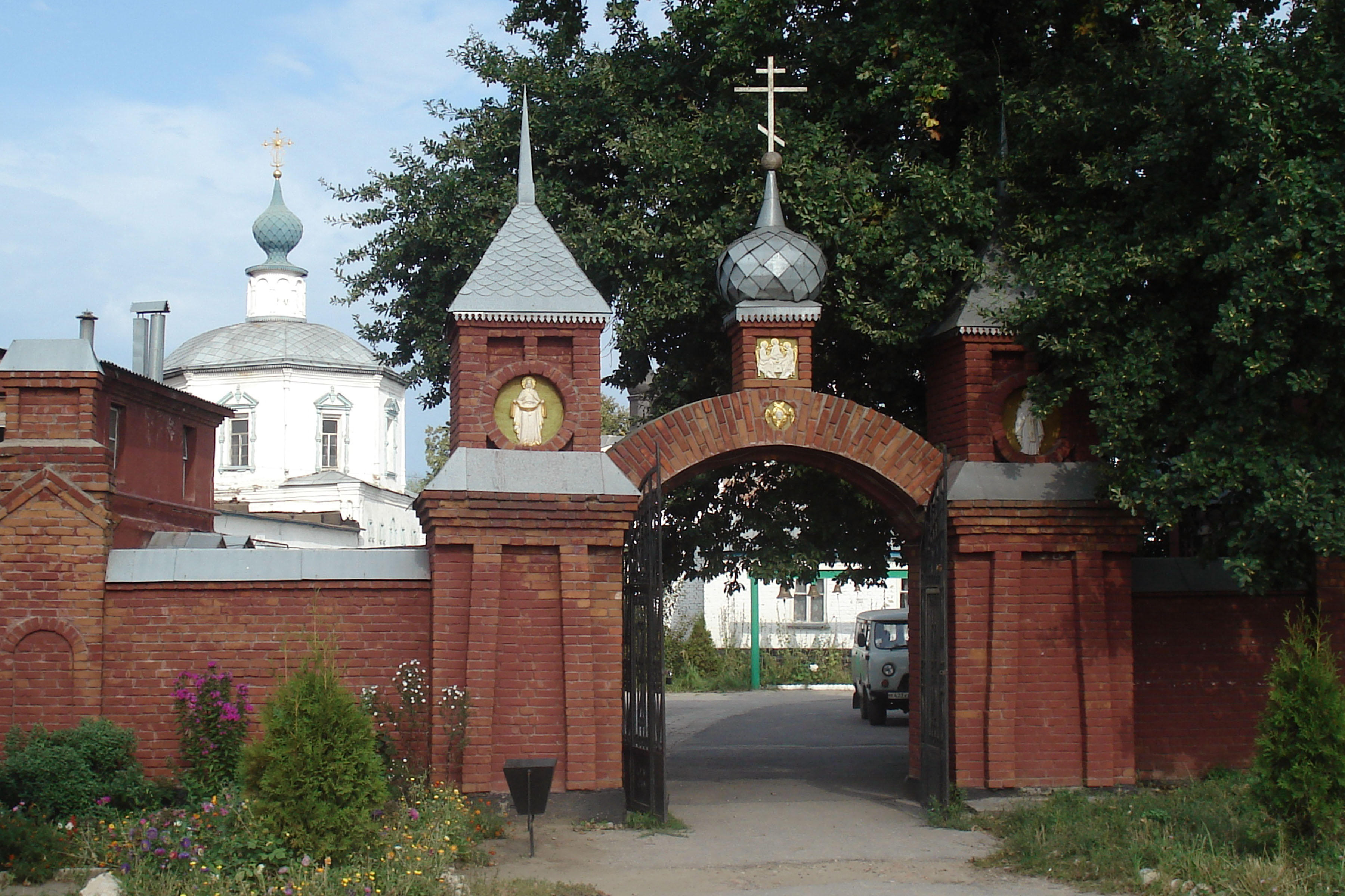 Trinity monastery. Ryazan. Russia.